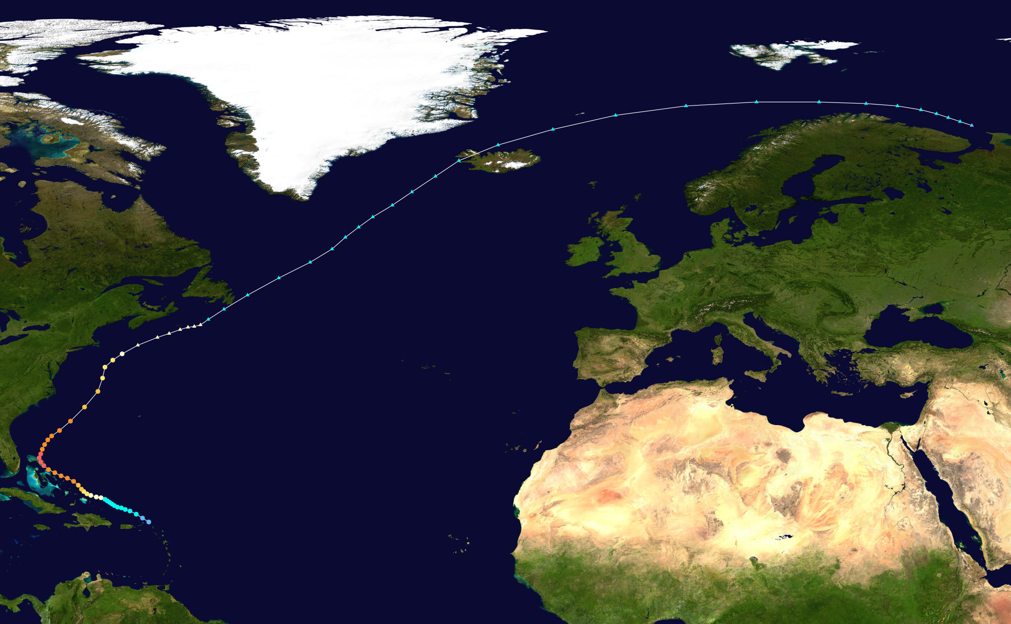 1932 Bahamas hurricane track. Uses the color scheme from the Saffir-Simpson Hurricane Scale.